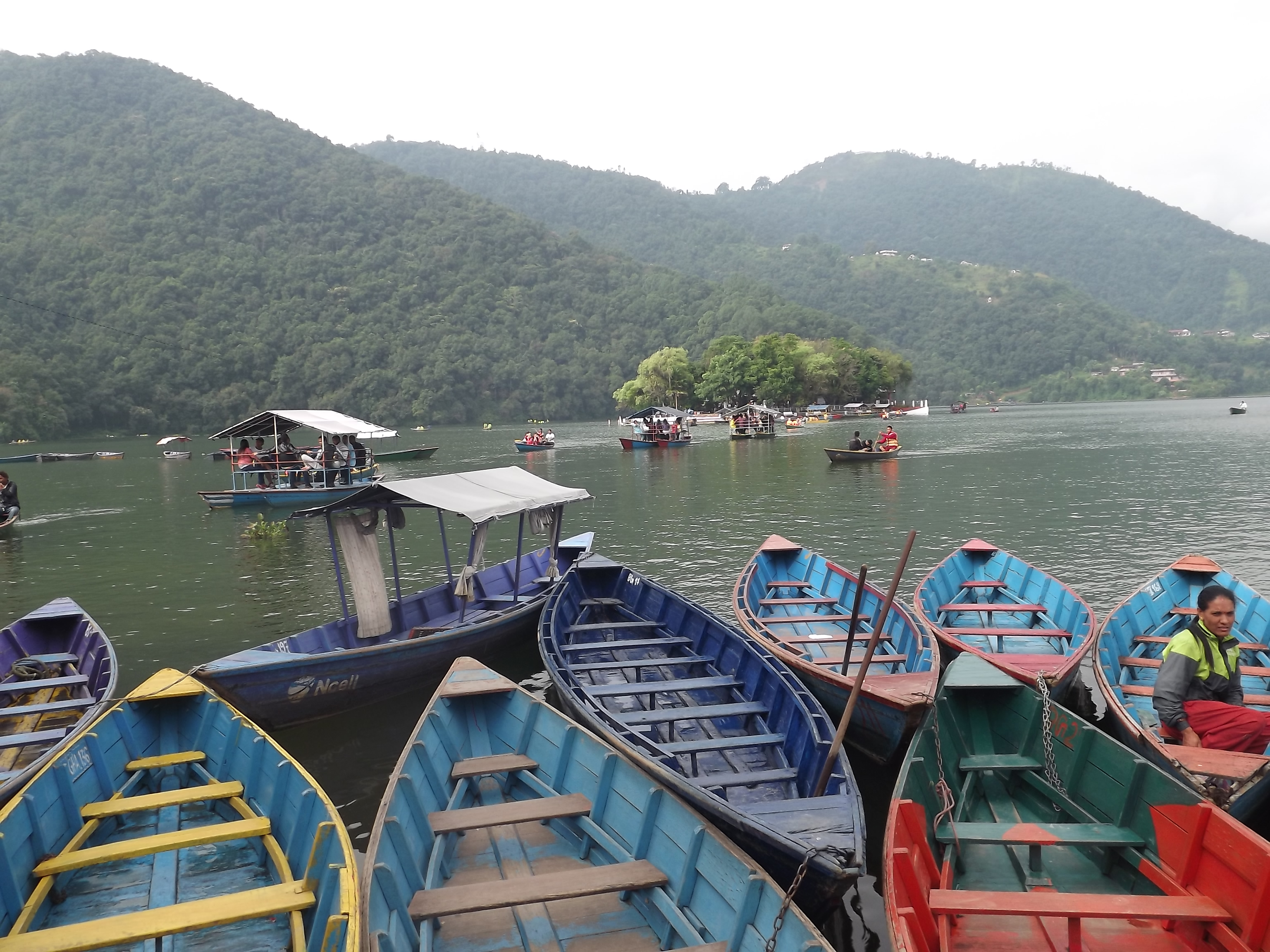 Boats in Fewa lake, Kaski District photo taken By Suresh Ghimire.